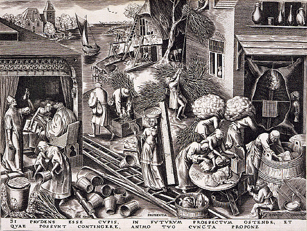 Prudence (Sapientia or Prudentia). Engraving by Hieronymus Cock, after Pieter Brueghel the Elder, 8 13/16 x 11 11/16 in. (22.4 x 29.7 cm). State i/ii. From the Set of the Seven Virtues.